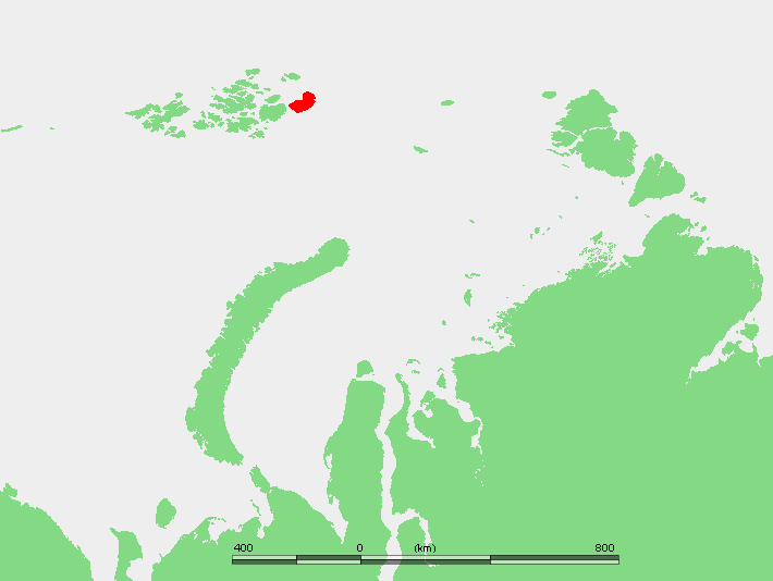 Location of Graham Bell Island, Franz Joseph Land